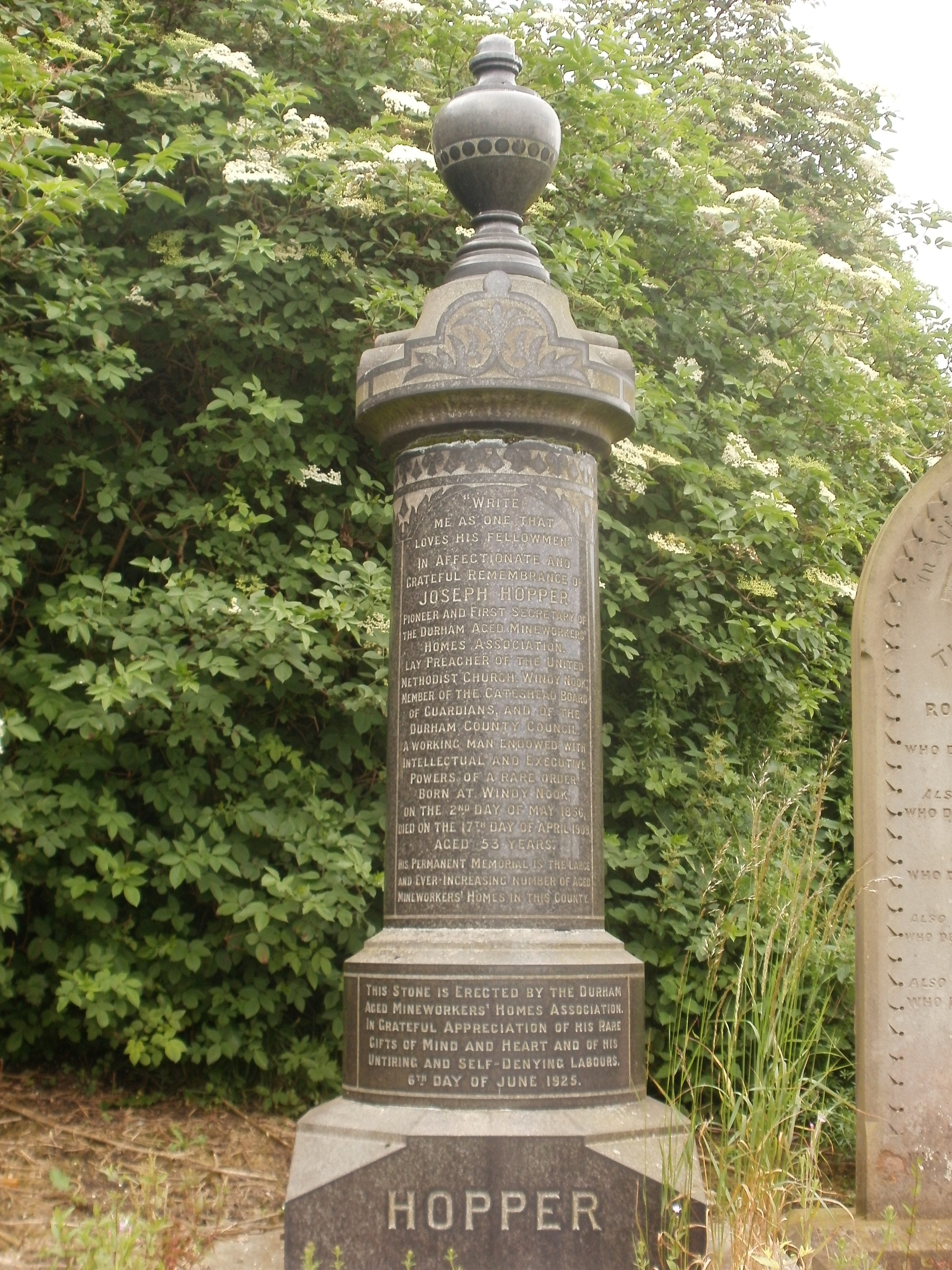 Monument to Joseph Hopper, founder of the Aged Mineworkers' Homes Association, in St Alban's parish churchyard, Windy Nook, Gateshead, Tyne and Wear